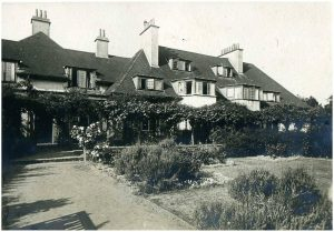 Prior's Field School in 1904 copyright claim by school